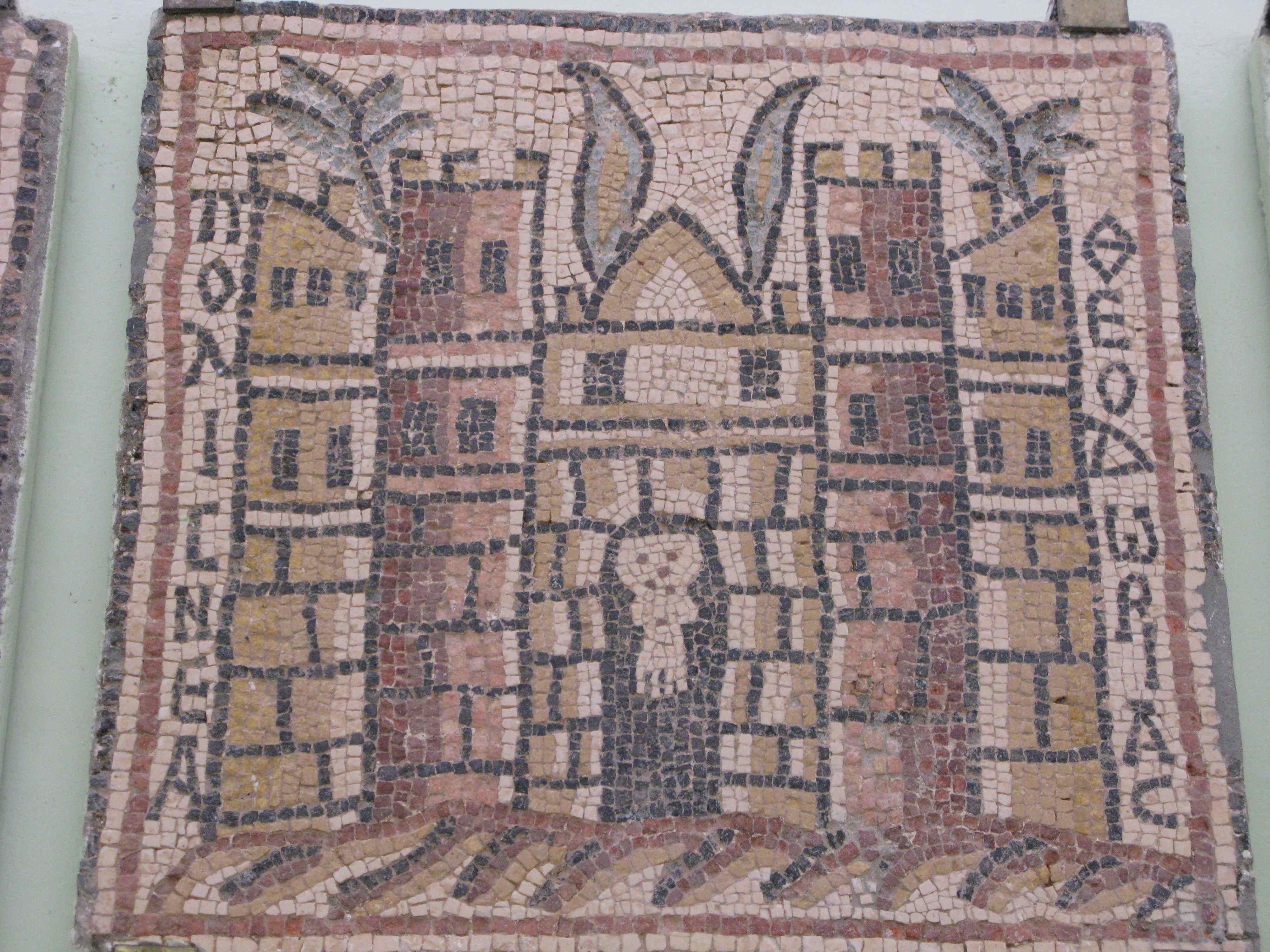 Mosaic commemorating the refunding of the city of Olbia, Libya as Polis Nea Theodorias by the Byzantine empress Theodoria, (ca CE 530). Currently in the Museum of Qasr Libya, Libya.